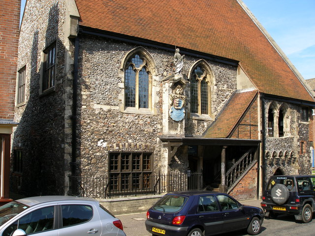 The Toll House, Tollhouse Street The oldest civic building in Great Yarmouth.